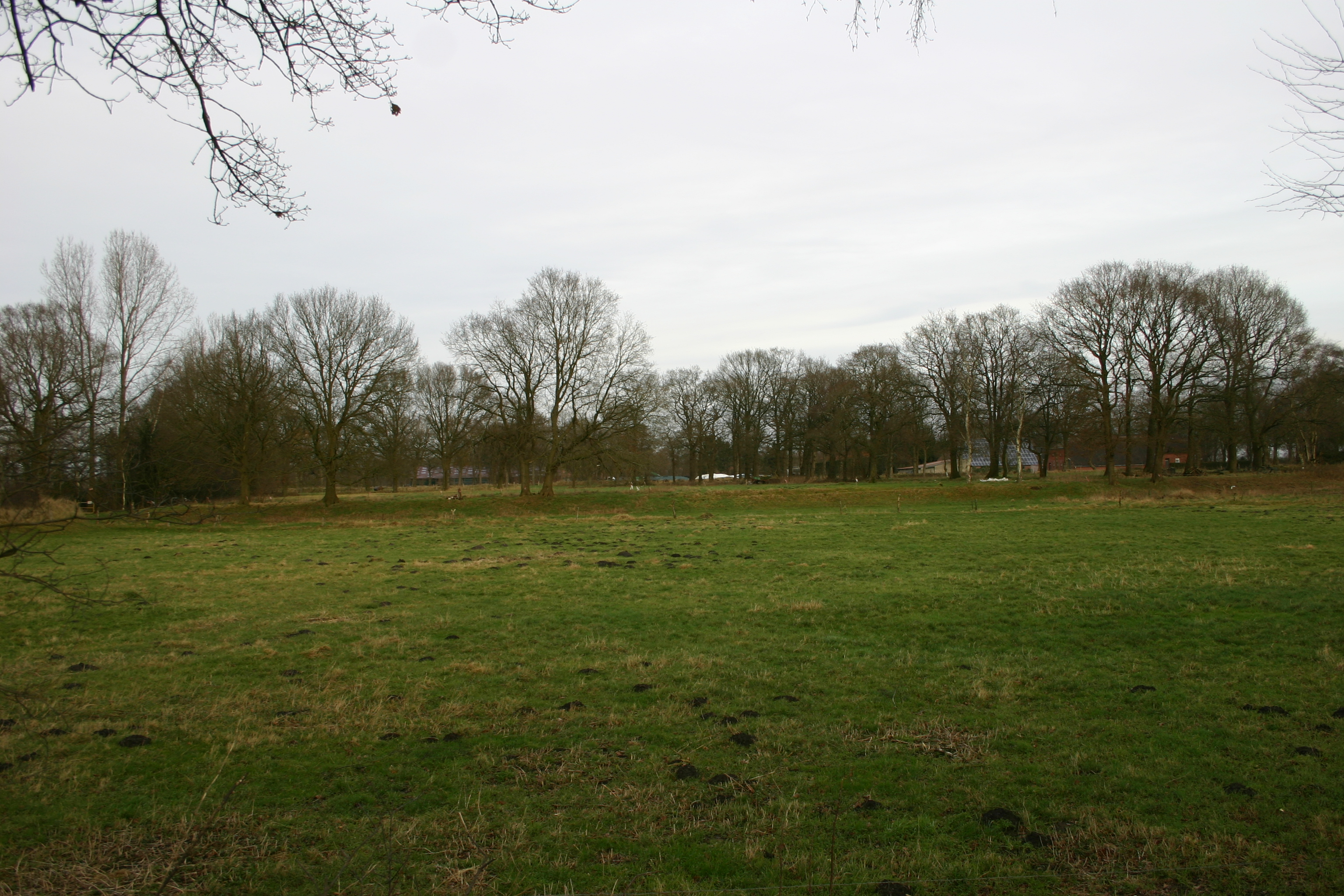 Embankments lined with trees, locally known as "Wallhecke", near Brinkum, district of Leer, East Frisia, Germany